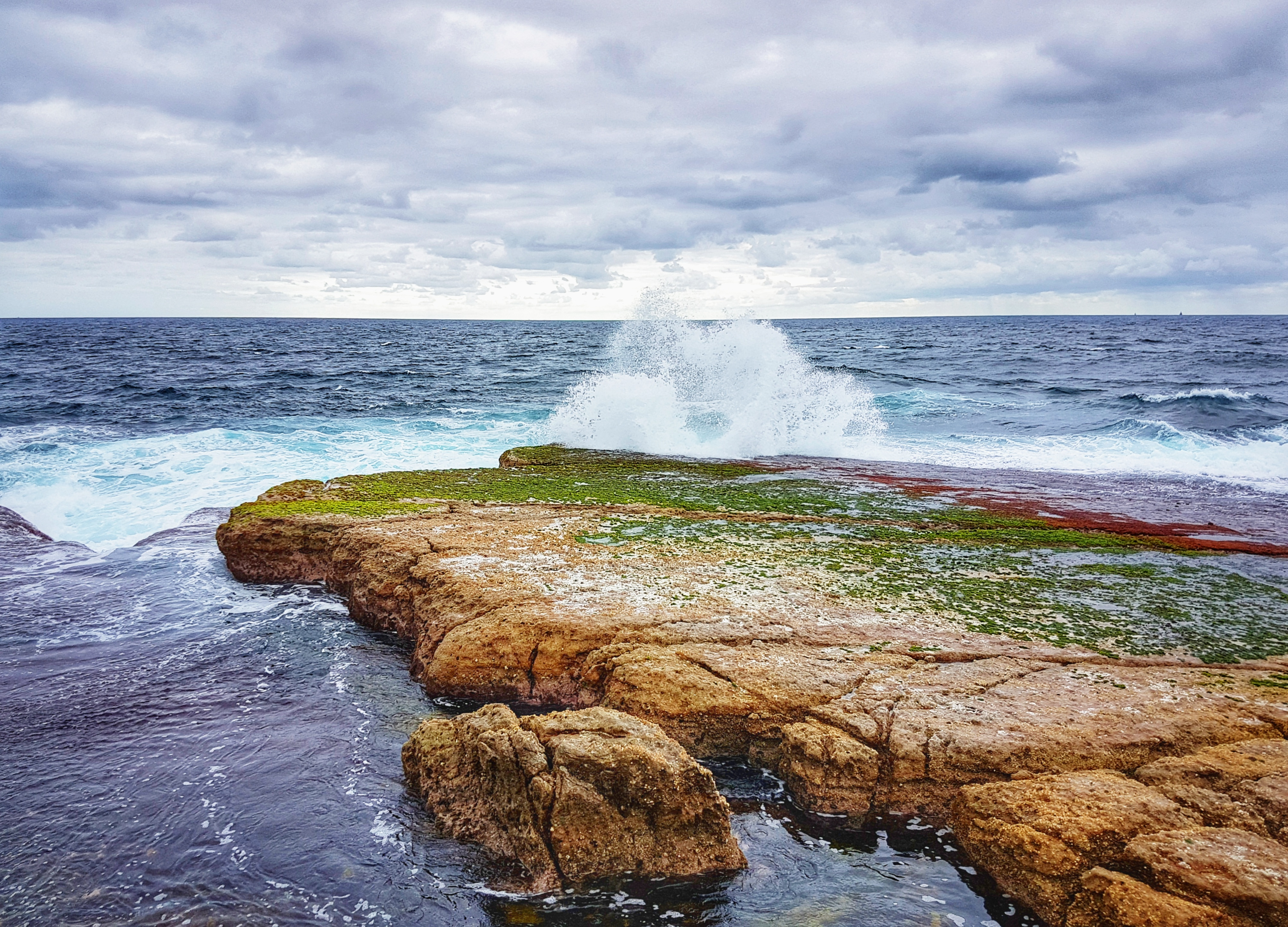 Thunderous waves crashing over Moes Rock at Jervis Bay Marine Park, New South Wales, Australia.